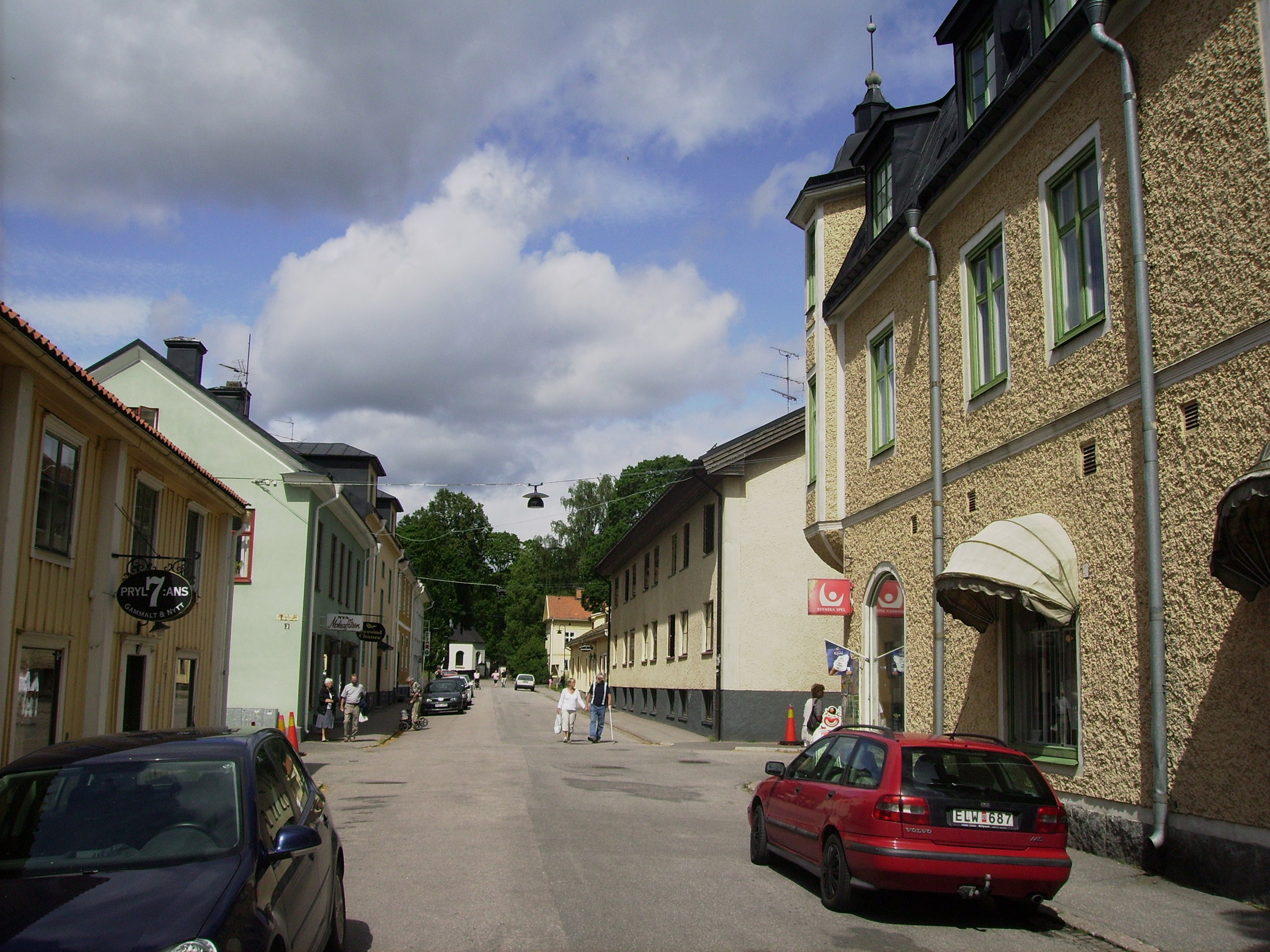 Picture of Storgatan in Malmköping